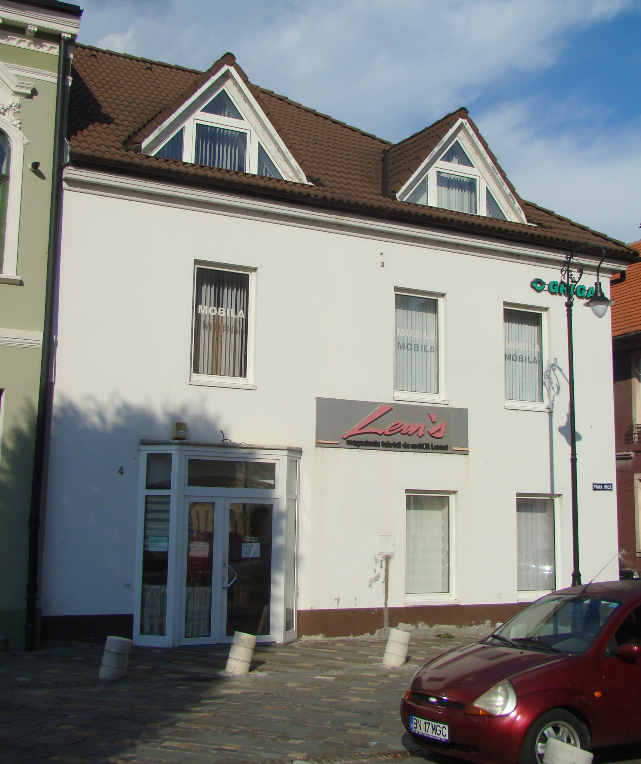 House, historic monument, in Bistrița, Piața Mică 4